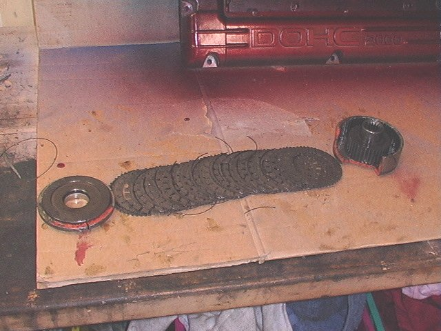 Completely torn apart VC from an Eagle Talon Tsi Awd (rear differential)